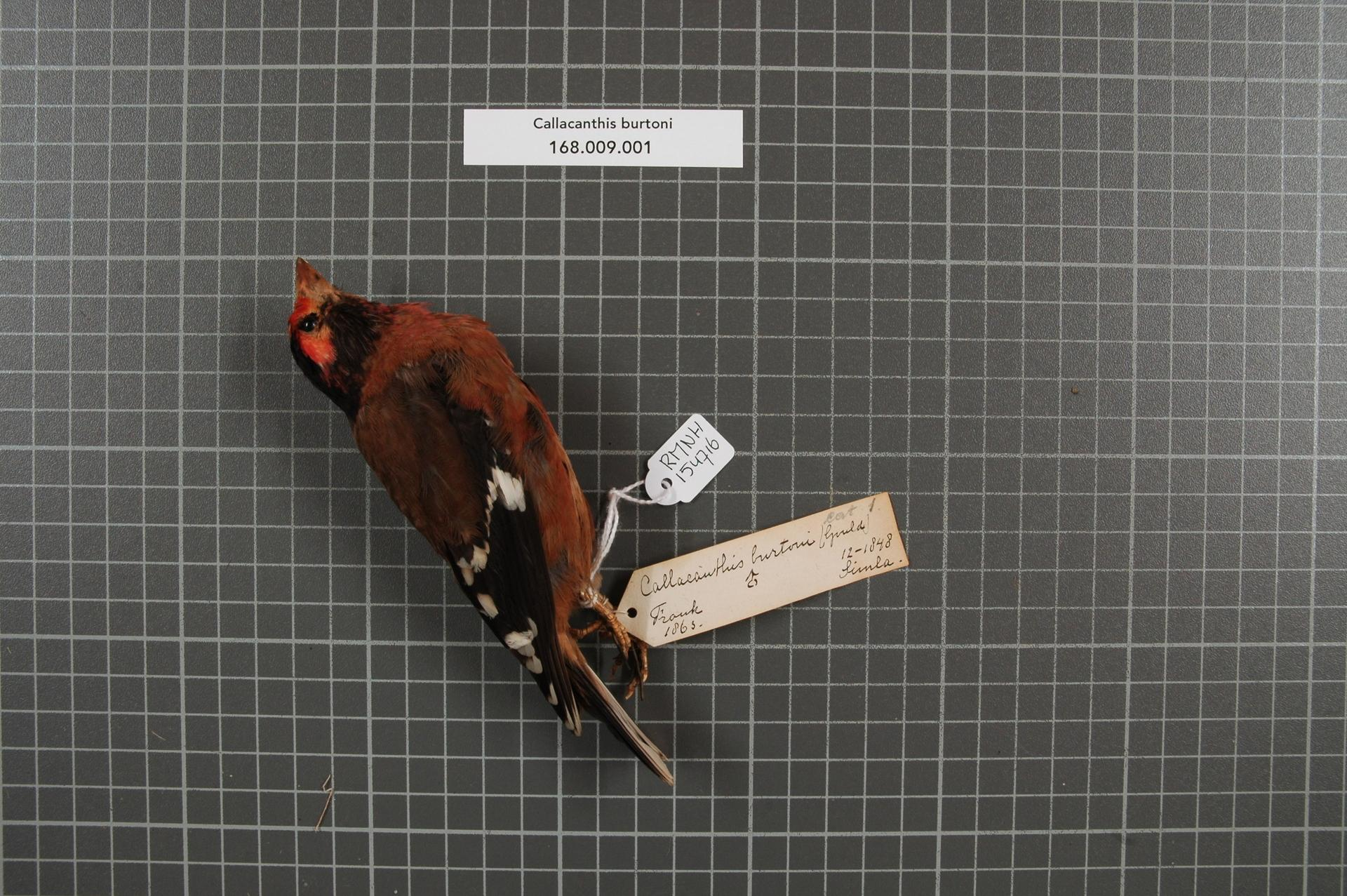 Callacanthis burtoni (Gould, 1838)